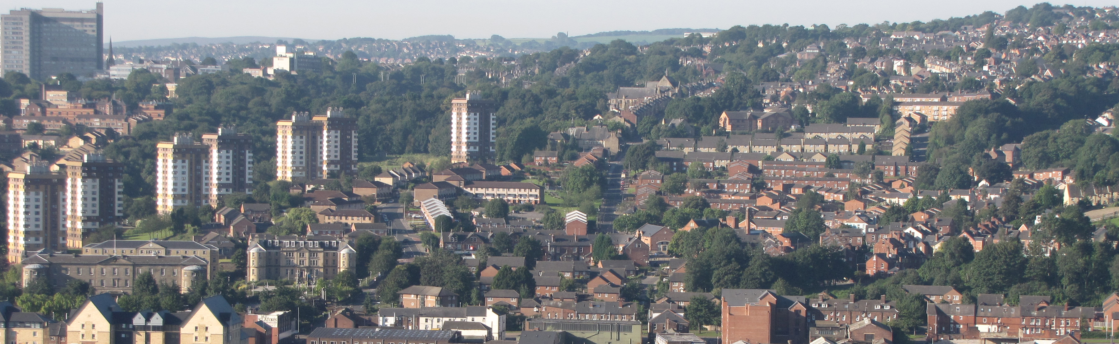 The suburb of Upperthorpe in Sheffield, England seen from Parkwood Springs.